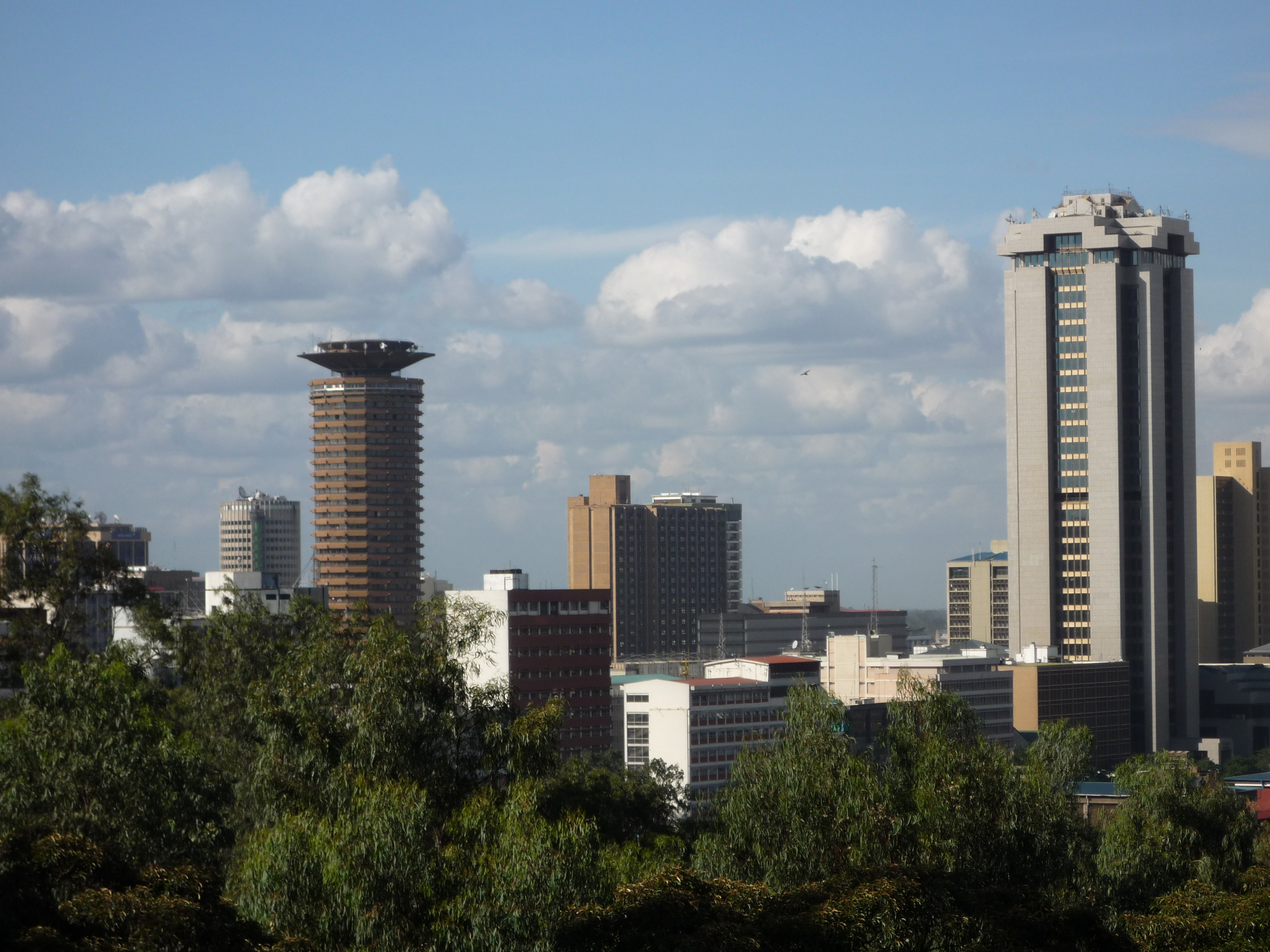 Nairobi skyline from Upperhill